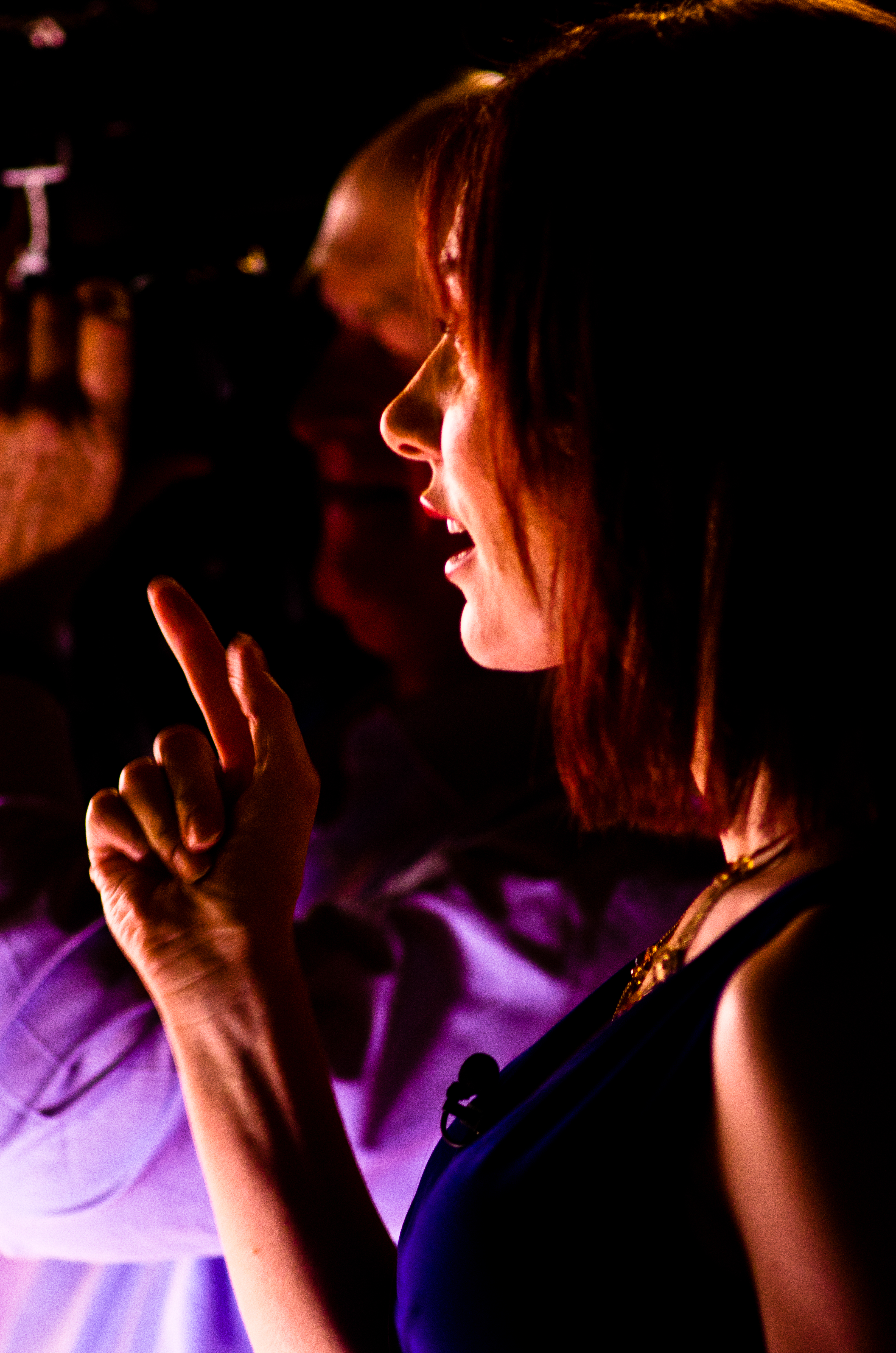 Geri Hall (again, she was standing in front of me most of the night so she ended up in alot of shots)